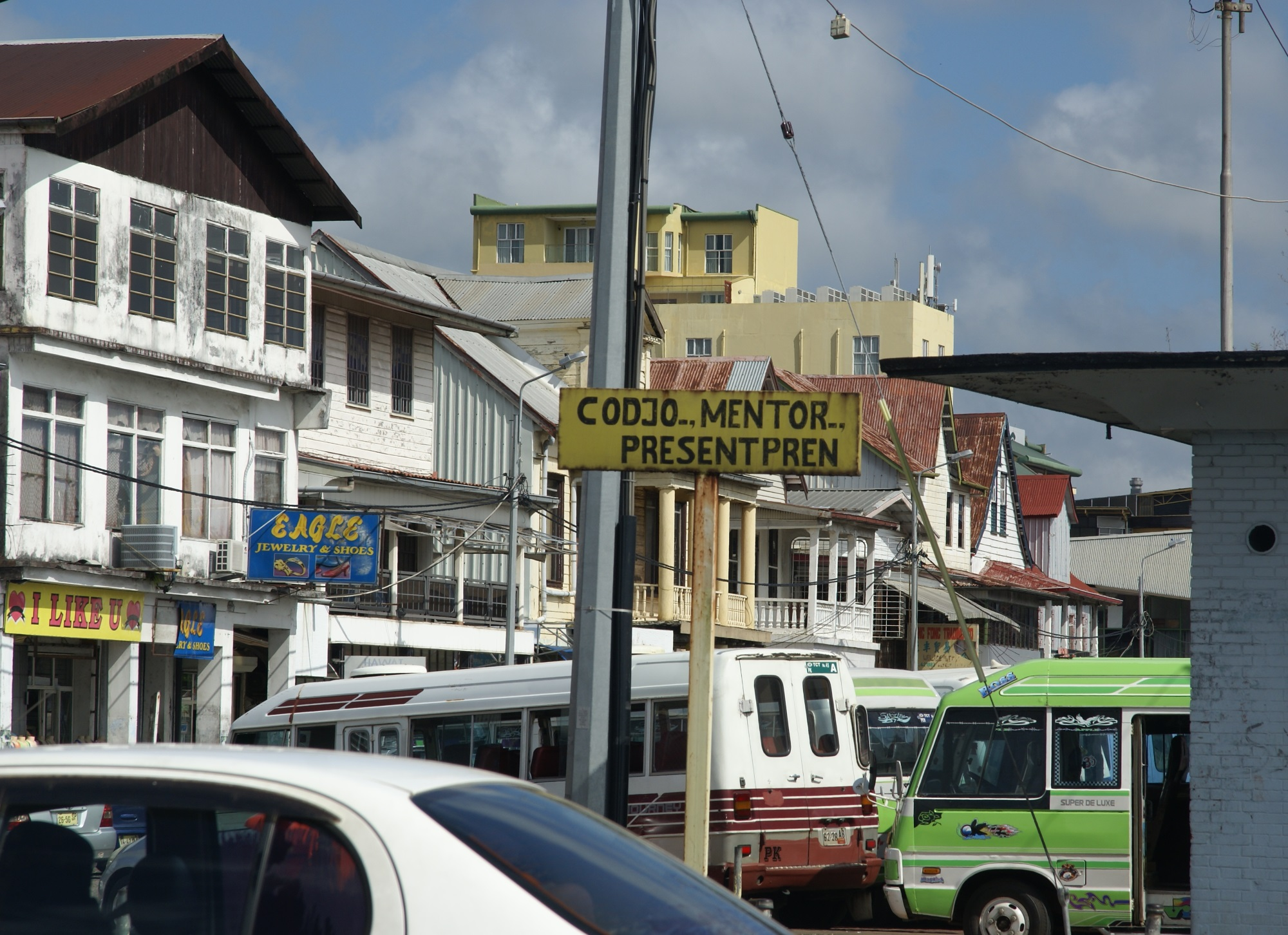 Codjo, Mentor en Present-plein, Heiligenweg, Paramaribo, Surinam. They were found guilty of setting fire to Paramaribo in 1832.